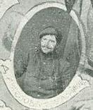 Portrait of IMARO member Doncho Angelov from Talashmantsi